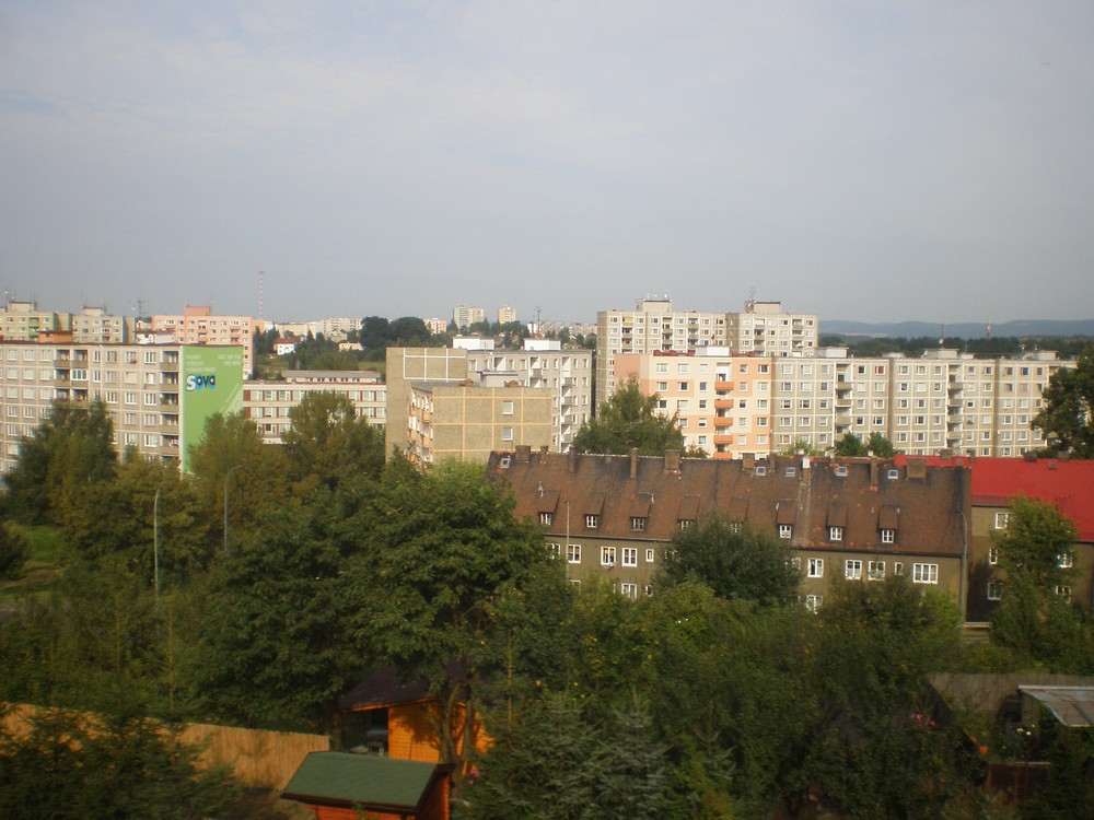 Karlovy Vary- Rybáře, Čankovská estata, Czech Republic